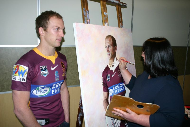 Portrait artist Nikyla Amanda Smith paints Broncos legend Darren Lockyer at the Broncos Leagues Club on the 18th September 2007.